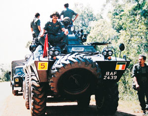 Image of the Police General Operations Force Cadillac Gage Commando armoured car used for combating communist terrorists operation in year 1985.